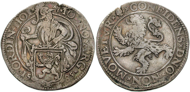 Low Countries, Holland. AR Leeuwendaalder (42mm, 27.22 g). Dated 1585. Knight above coat-of-arms Heraldic lion to left; mm: rosette. Delmonte 831. VF, toned.